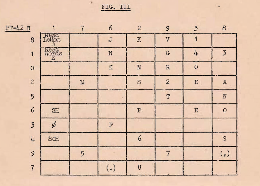 Figure III of TICOM document I-19d Report on Interrogation of KONA 1 at Revin, France, June 1945. Image is of PT-42N recyphering table. Other information Image is on orange blotter paper. Dianna has already agreed TICOM files before 1956 are in public domain. This is from 1945, is military in nature.